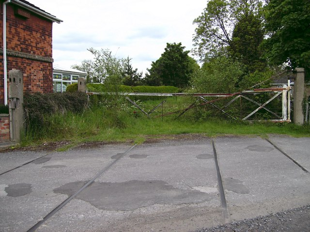 Old Crossing gates, Fotherby